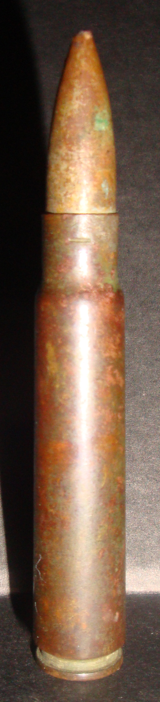 A dug up heavy Breda cartridge.